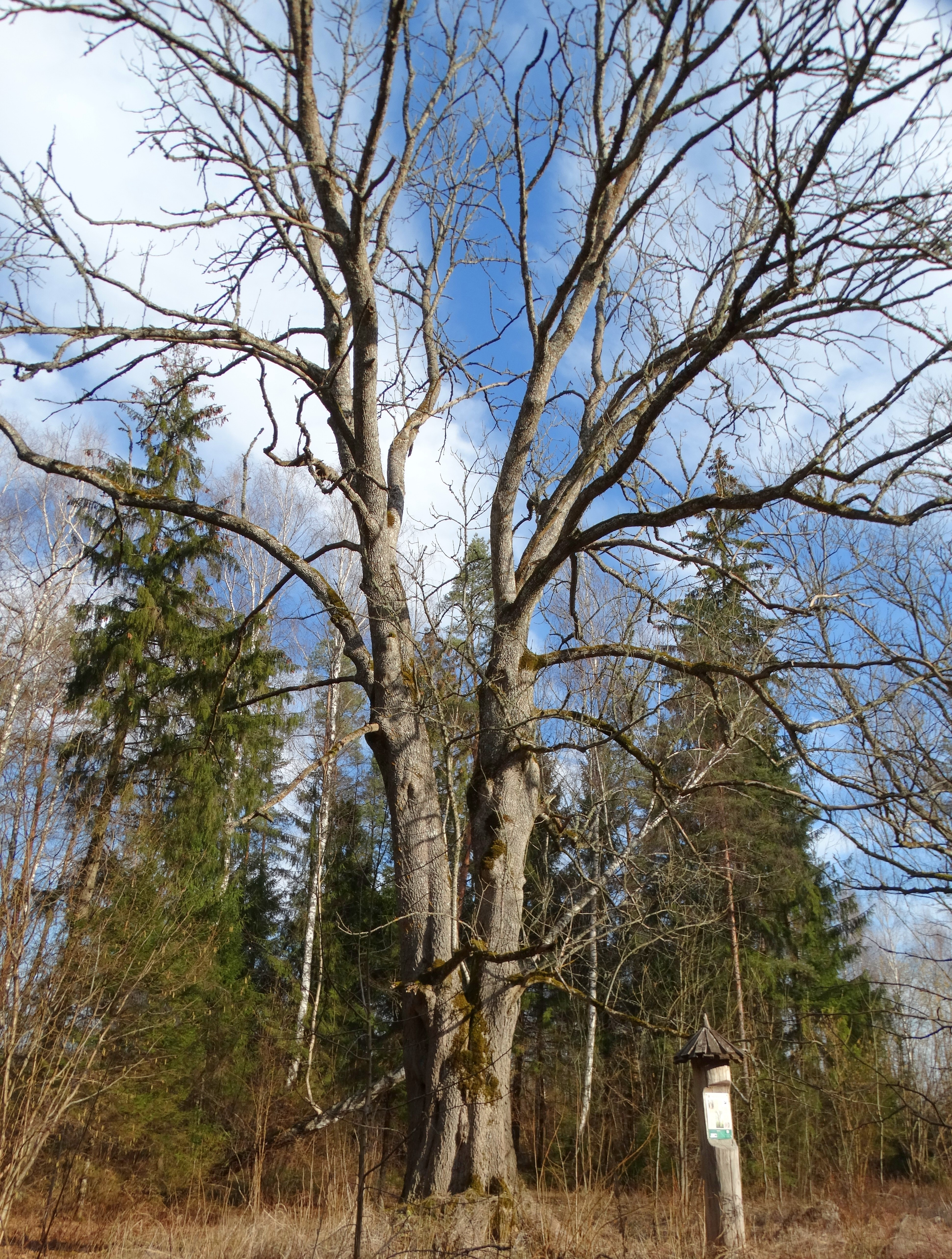 Ash tree, Skaudviliai, Šiauliai district, Lithuania